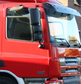 DAF CF truck.